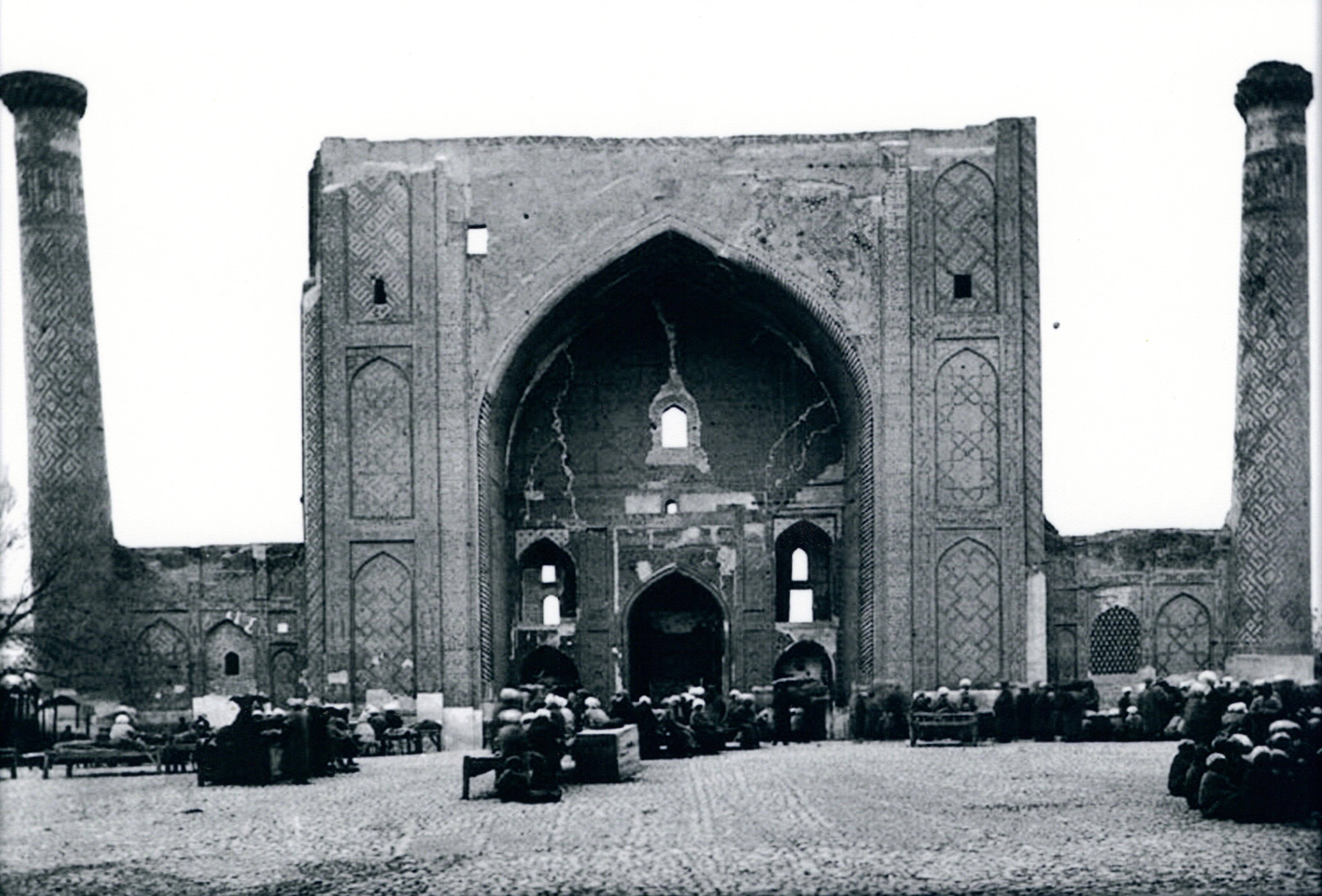 View from old Samarkand: the Ulugbek Madrasah